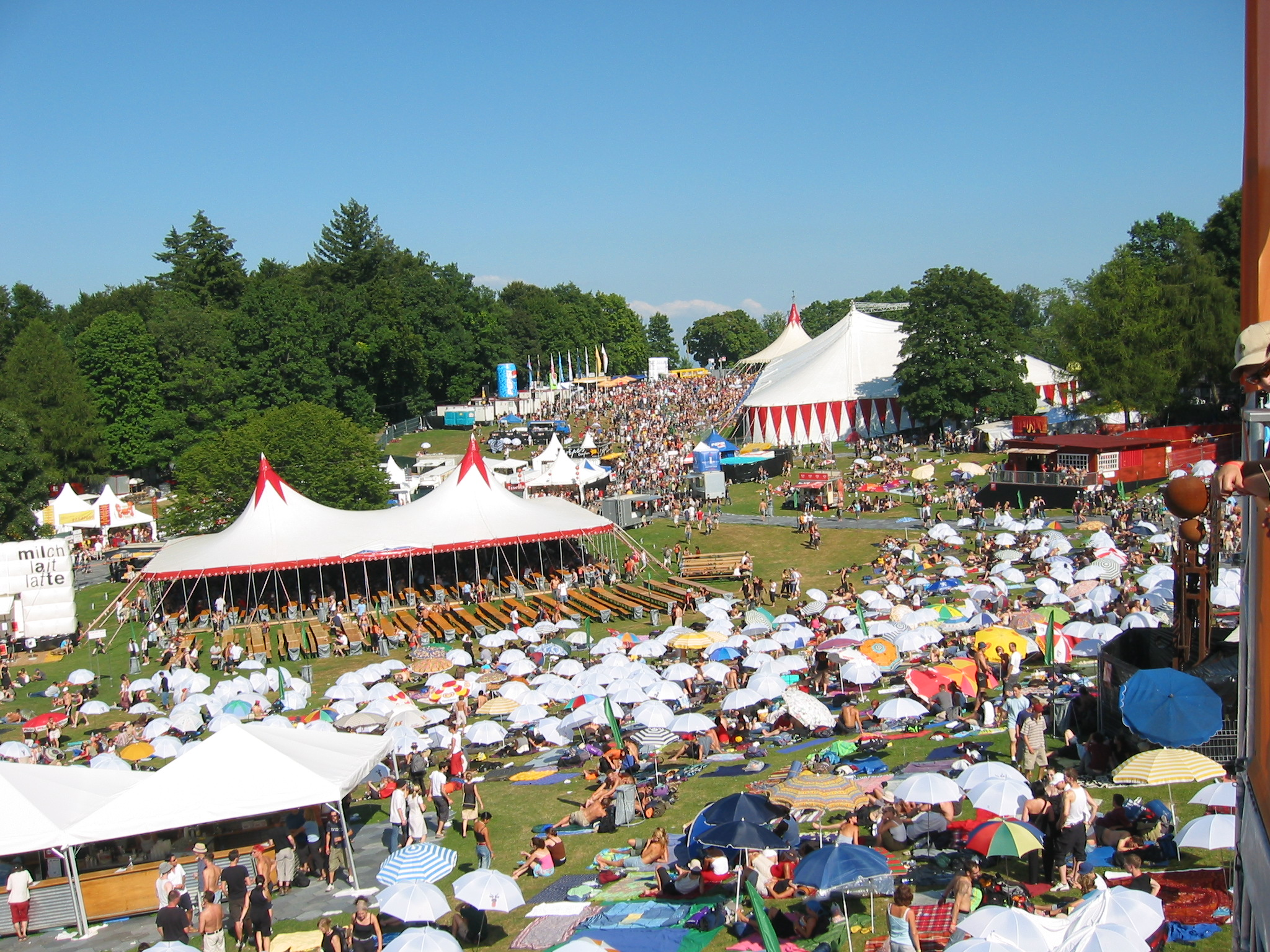 View over Gurtenfestival 2003